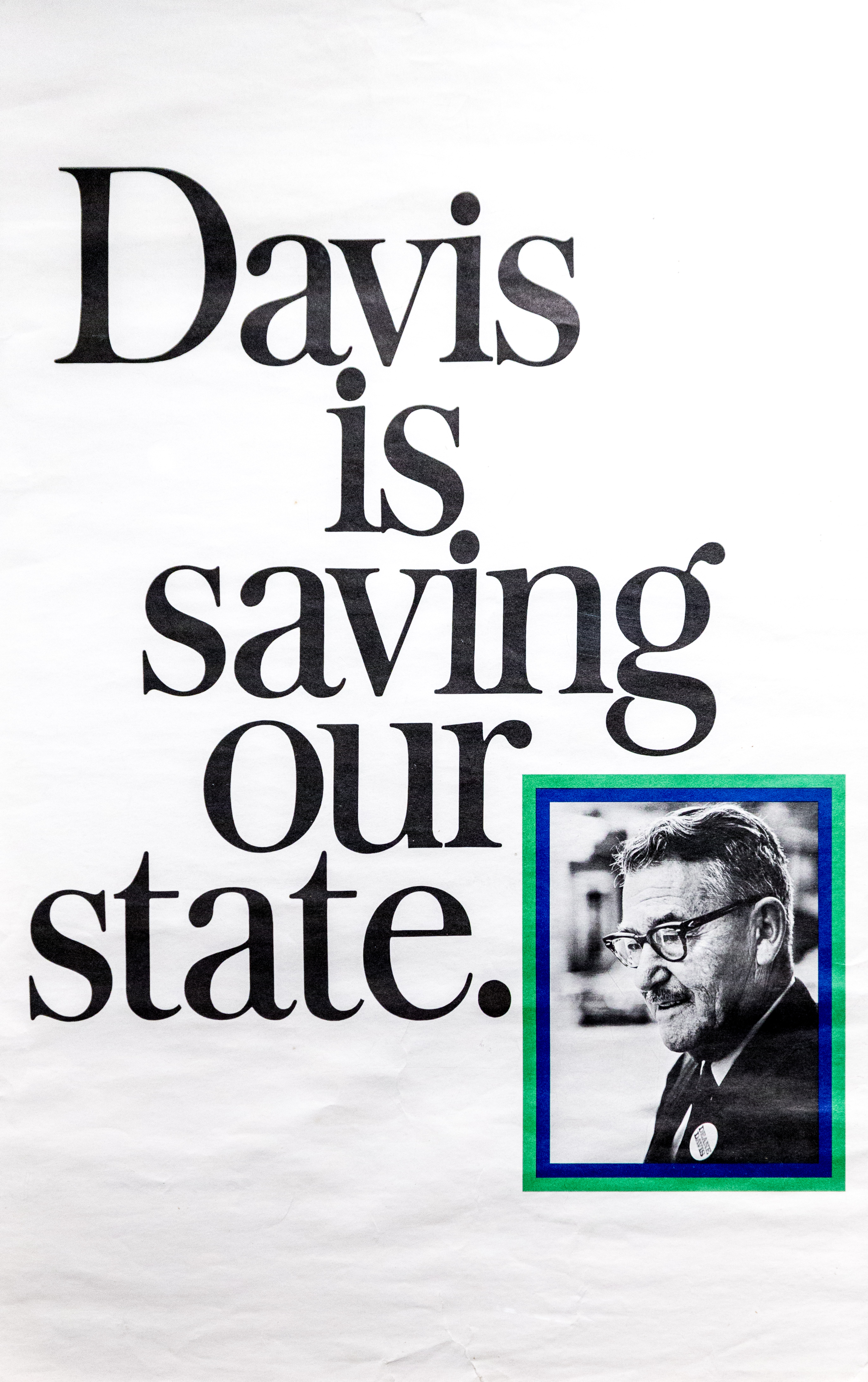 Deane C. Davis Vermont Governor poster. From the Vermont Historical Society Museum, Montpelier Vermont. Probably 1970, when Davis ran for re-election.